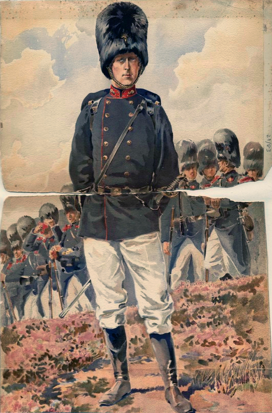 King Albert as Colonel of the Regiment of Grenadiers, 1897